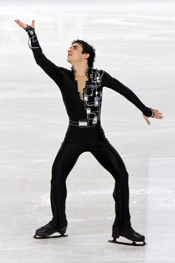 Javier Fernandez at the 2010 World Championships.